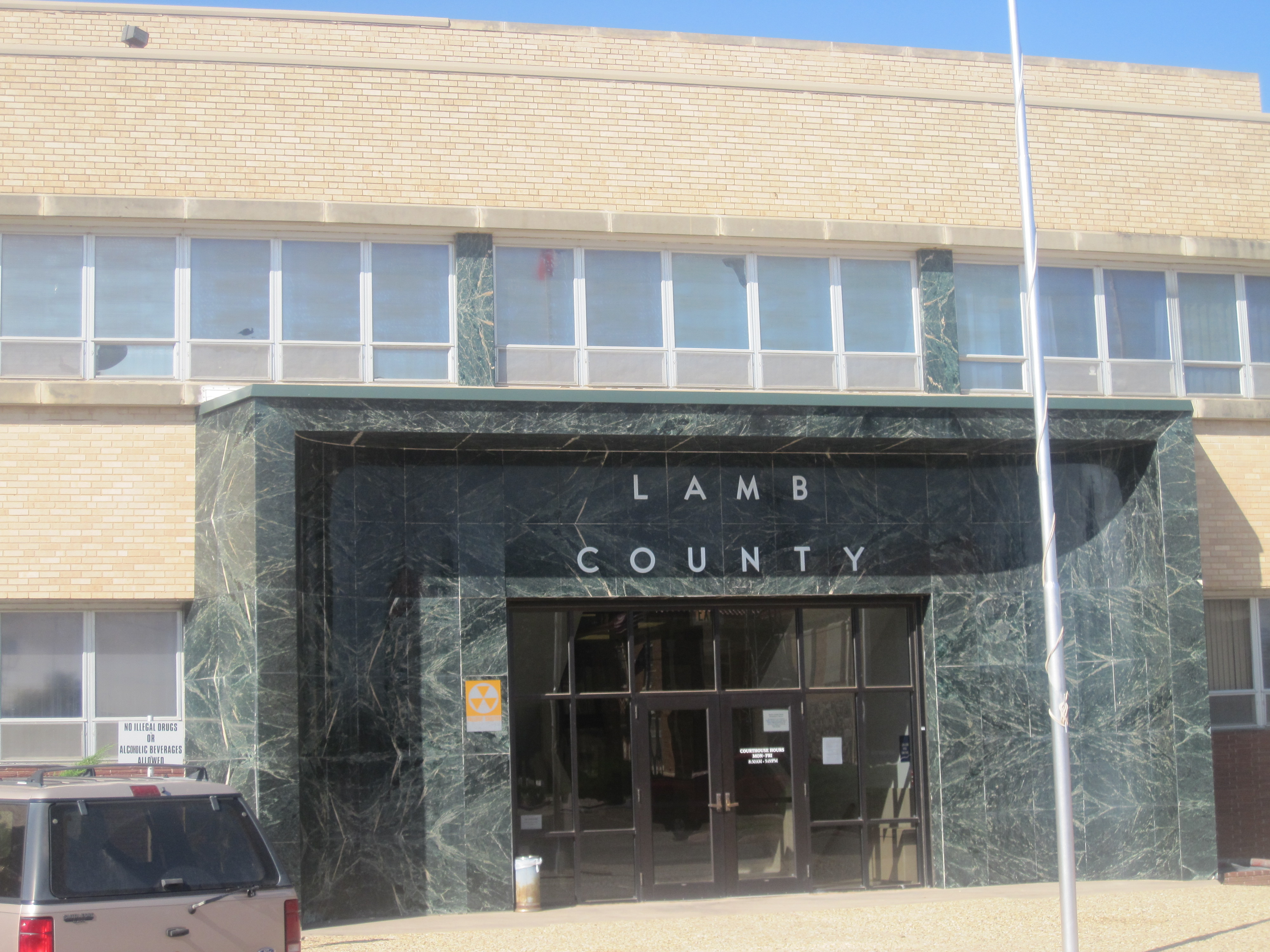 Lamb County Courthouse. I took photo in Littlefield, Texas, with a Canon camera.